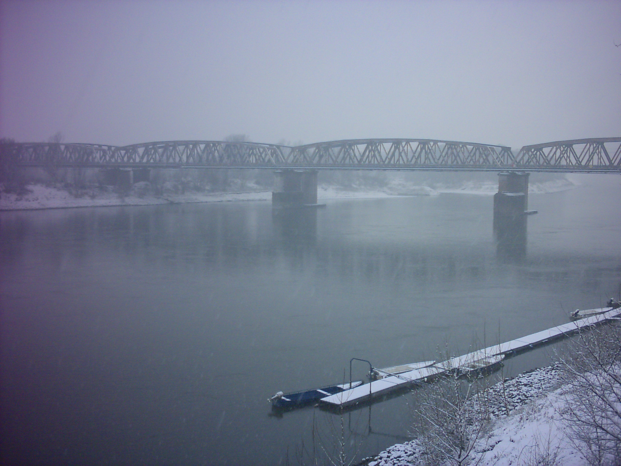 The old iron-made bridge crossing Po River, at Cremona (Italy).